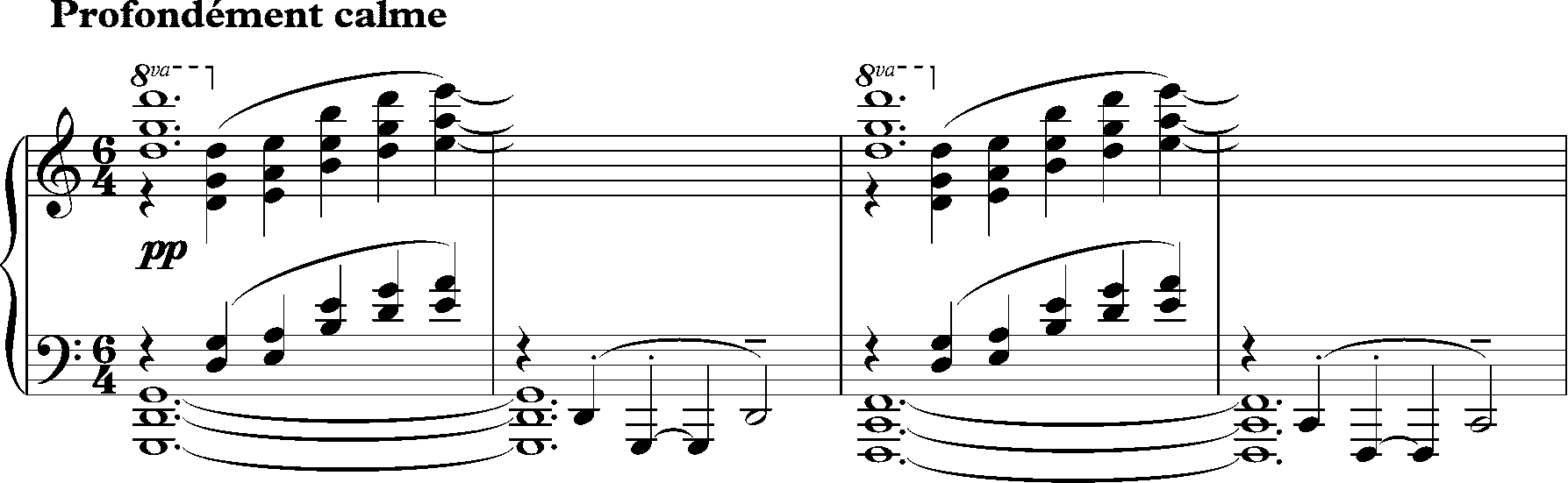 Parallel fourths evoking organum in Debussy's "The Sunken Cathedral" opening